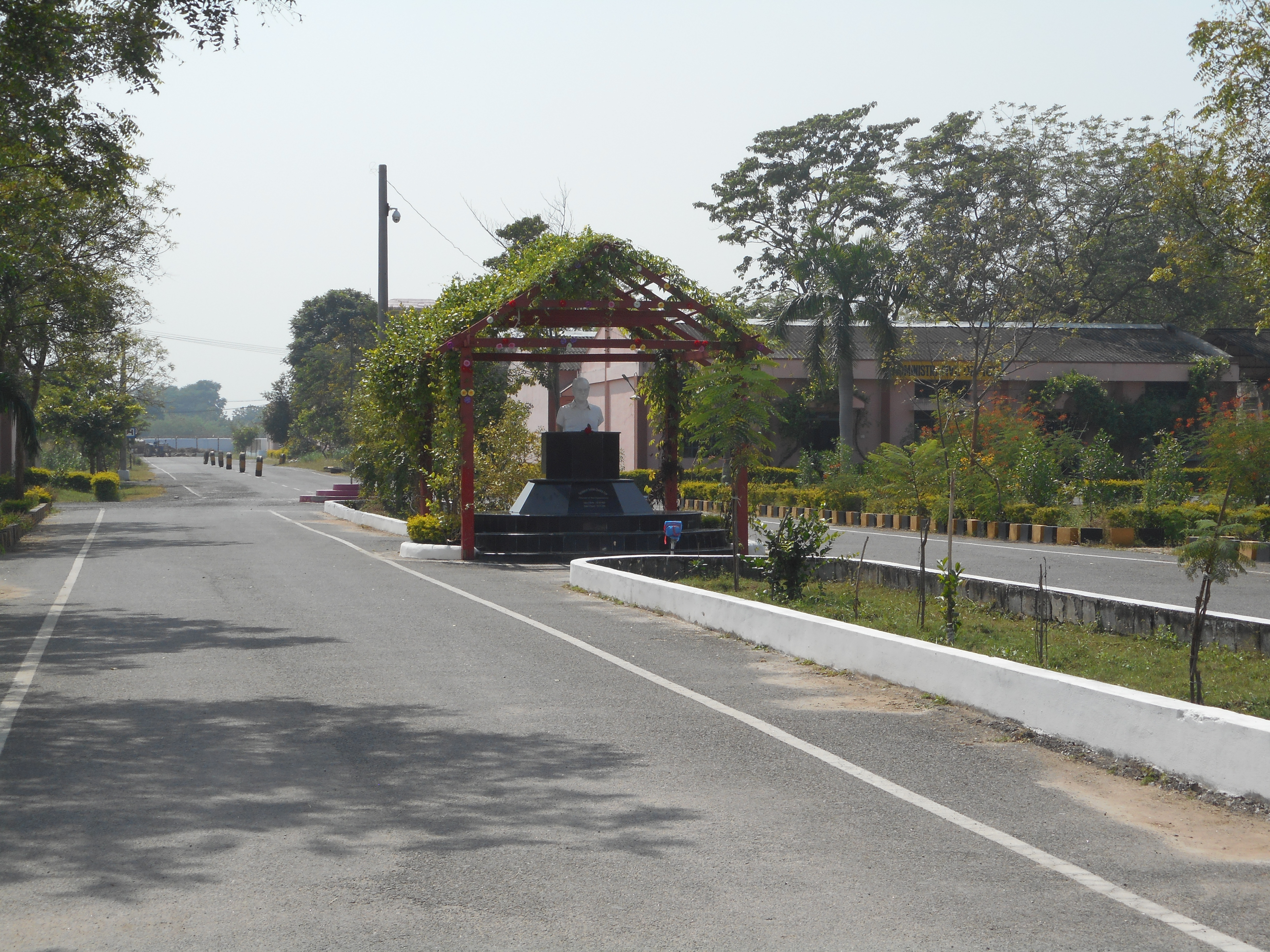 PSC Bose memorial Trust, driving school, Automobile ITI campus in Munagacharla village (Nandigama mandal) of krishna district